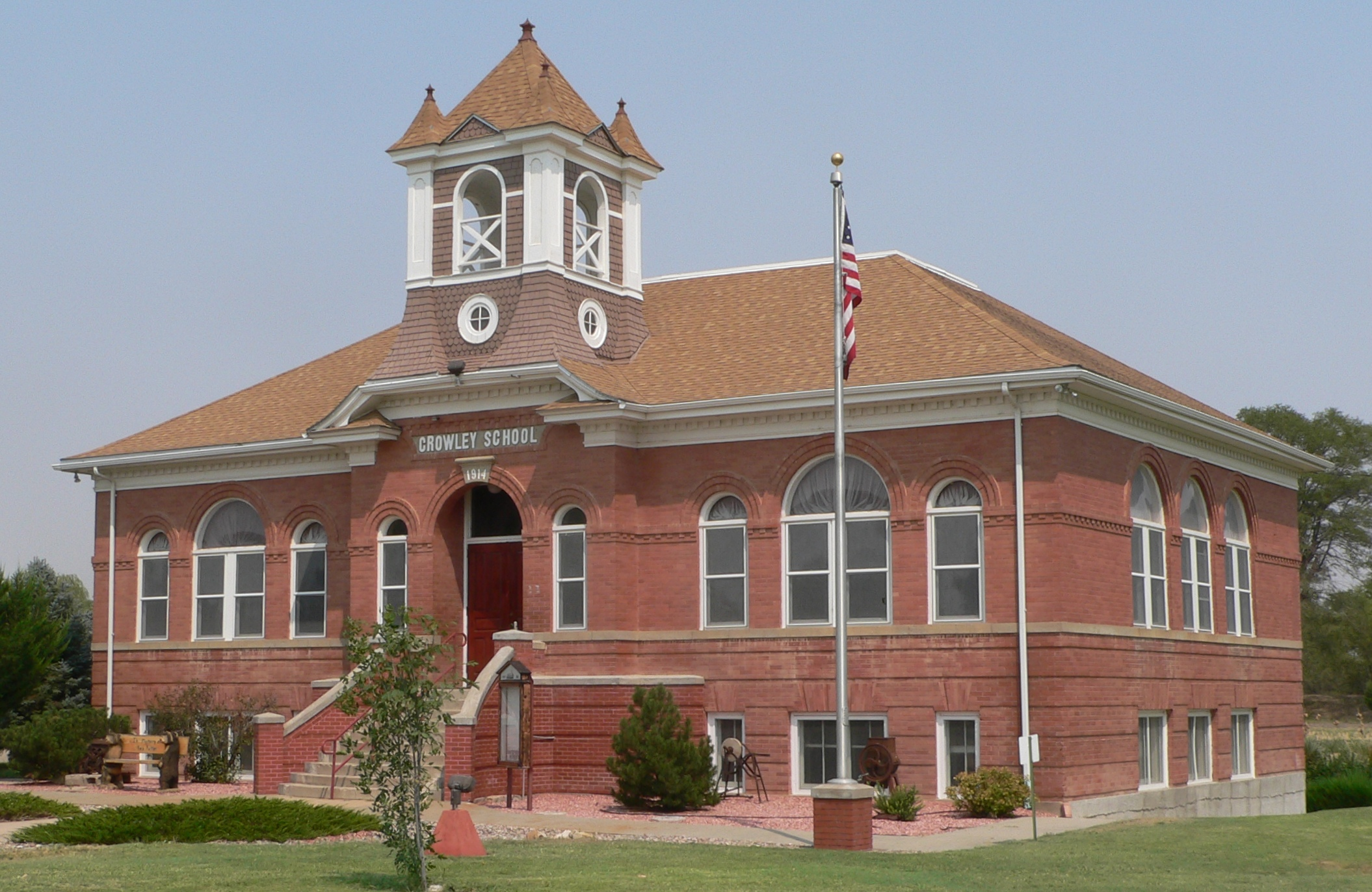 Crowley County Heritage Center, located on Main Street in Crowley, Colorado; seen from the south